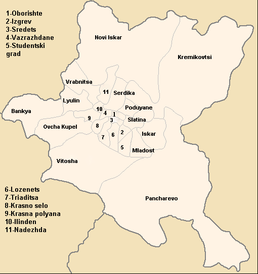 A map of the municipalities of Sofia made by Taushanov edited by GvmBG